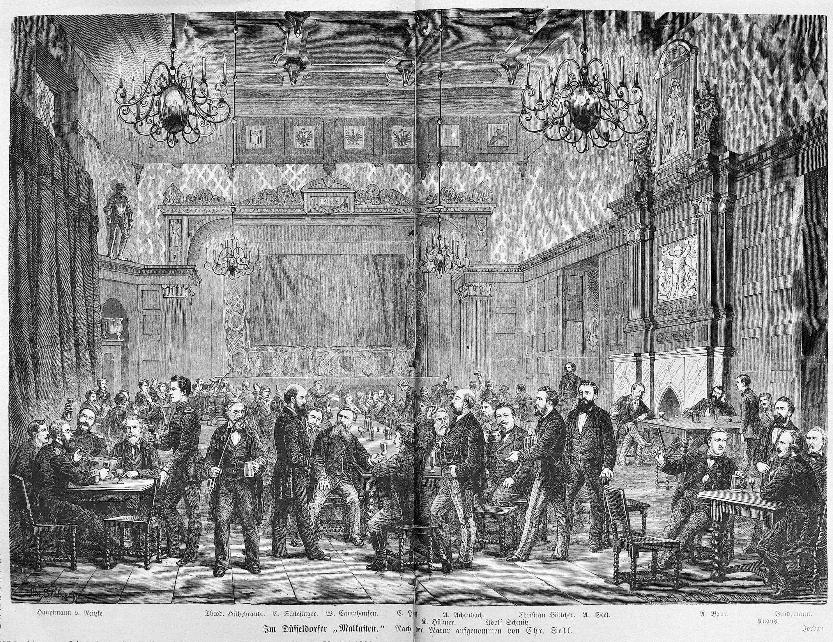 caption: " Hauptmann v. Neitzke. Theod. Hildebrandt. C. Schlesinger. W. Camphausen. C. Hoff. A. Achenbach. Christian Böttcher. A. Seel. A. Baur. Bendemann. K. Hübner Adolf Schmitz. Knaus. Jordan. Im Düsseldorfer „Malkasten.“ Nach der Natur von Chr. Sell."